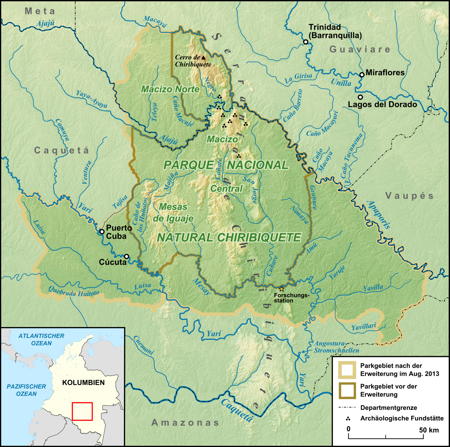 Map of Chiribiquete National Park